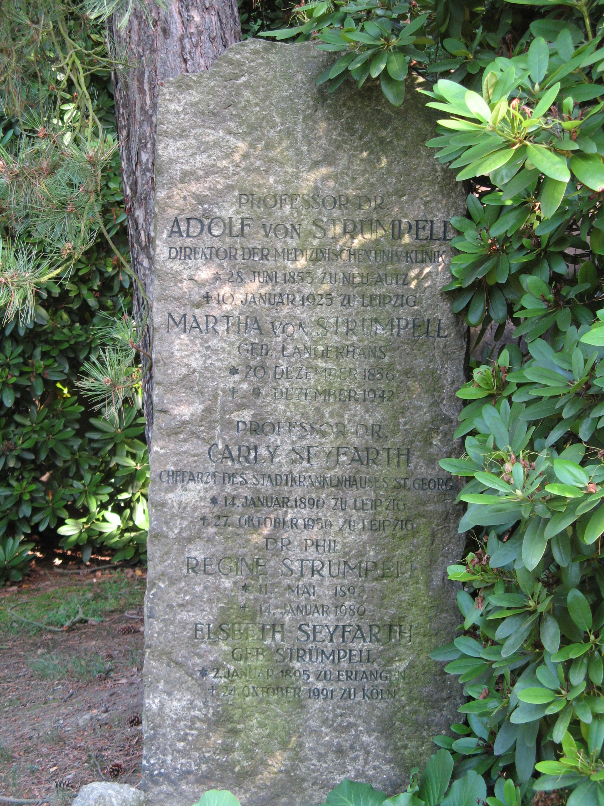 Gravestone of physician Adolf von Strümpell at Südfriedhof (south cemetery) Leipzig